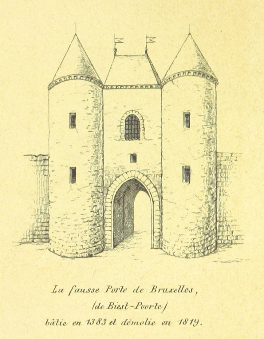 Former City Gate in Leuven (Belgium), named Biestpoort